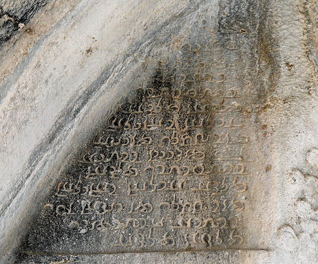 Taq-e Bostan: Pahlavi inscription of Shapur III